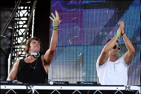 Stafford Brothers at Stafford Brothers at Summafieldaze, 2011.